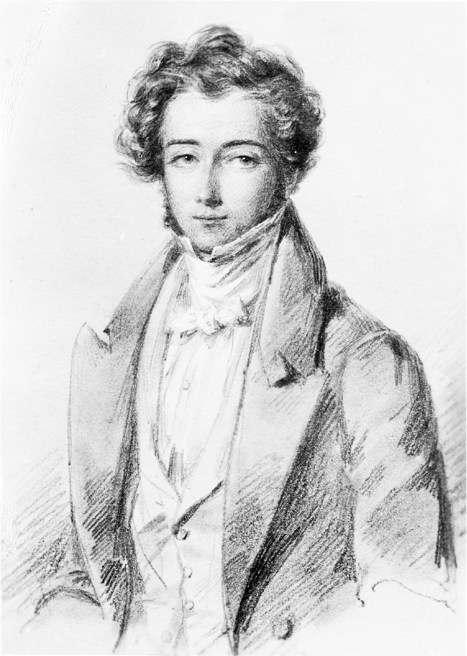 Photograph of a sketch of the French author and traveler Alexis de Tocqueville. Undated, by an unknown artist. Courtesy of the Beinecke Rare Book & Manuscript Library, Yale University.[1]